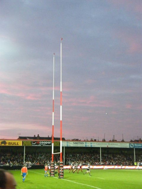 Kingsholm Stadium, GloucesterKingsholm Stadium home of Gloucester Rugby hosts an Ireland-Barbarians game in May 2008.